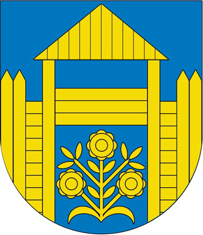 Coat of arms of Podegrodzie Commune